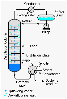 I drew this diagram of an industrial distillation tower operating at total reflux using Microsoft's Paint program. It is for use in an article about the Fenske equation. The date is November 20, 2006. This is a diagram of an industrial distillation column operating at total reflux.